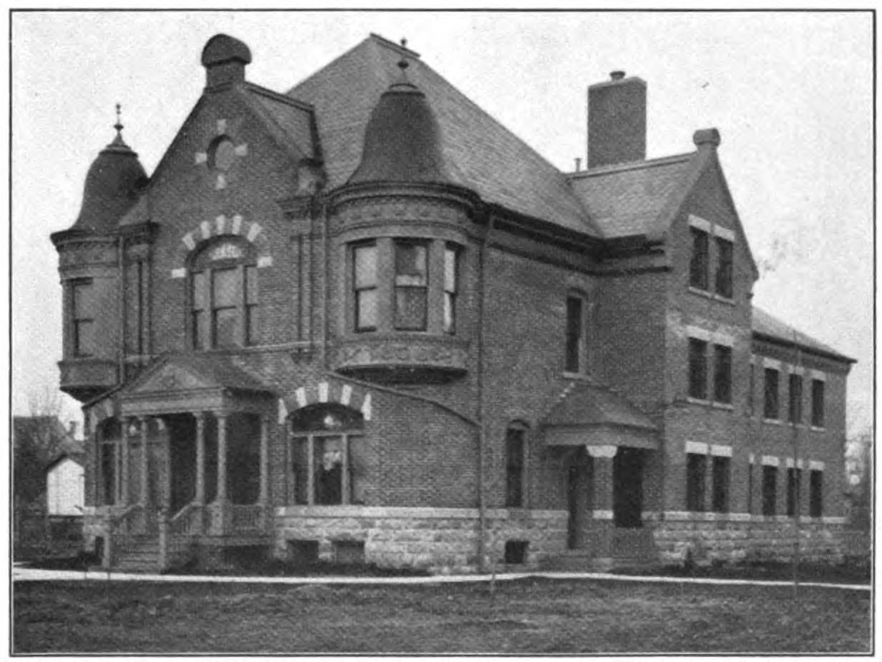 The Mecosta County Jail in Big Rapids, Michigan, circa 1906. It is a Michigan State Historic Sites in Mecosta County.